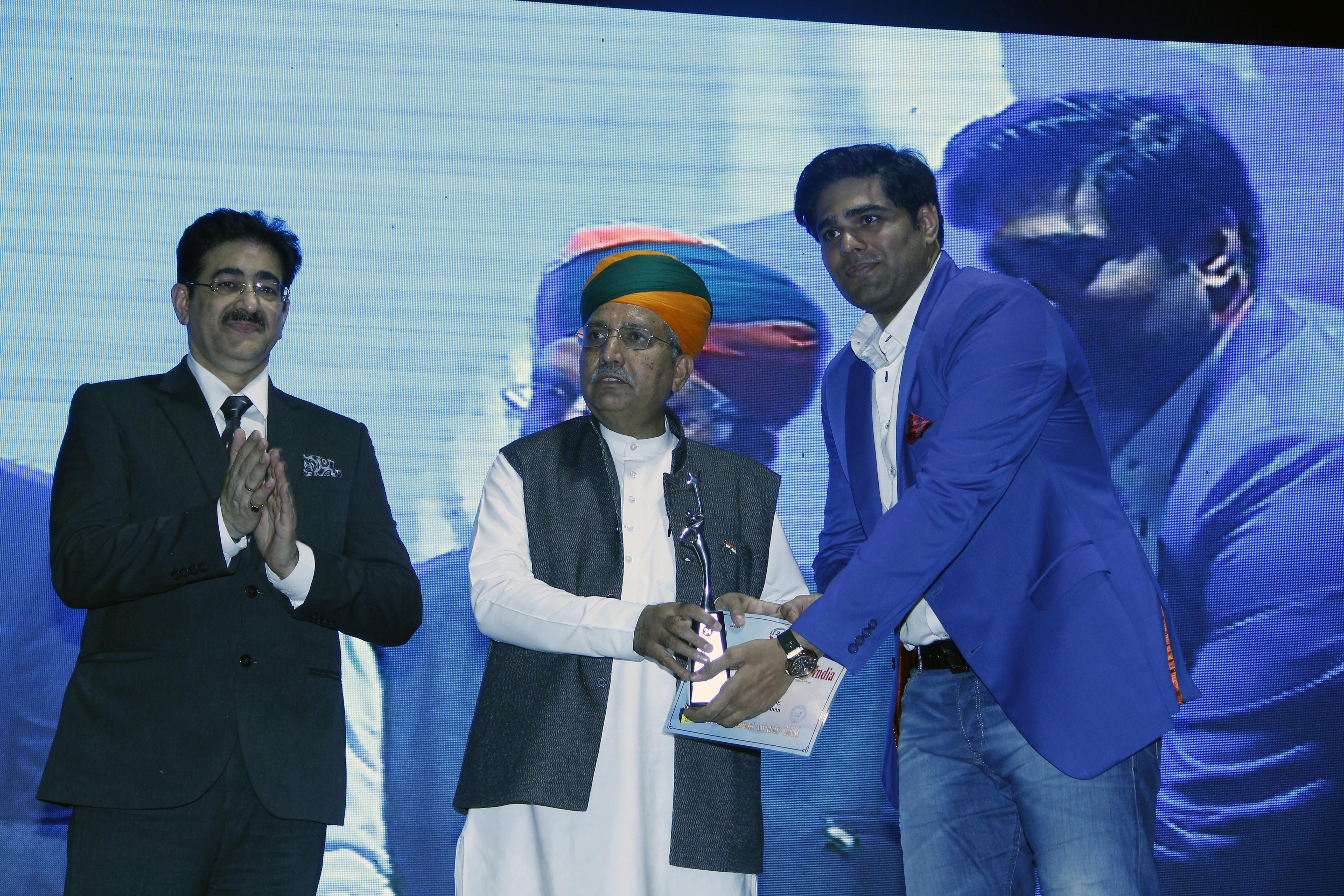 Best NRI, Non-resident Indian diaspora Award to Naveen Singh Suhag in New Delhi by Minister of Finance Govt of India in New Delhi